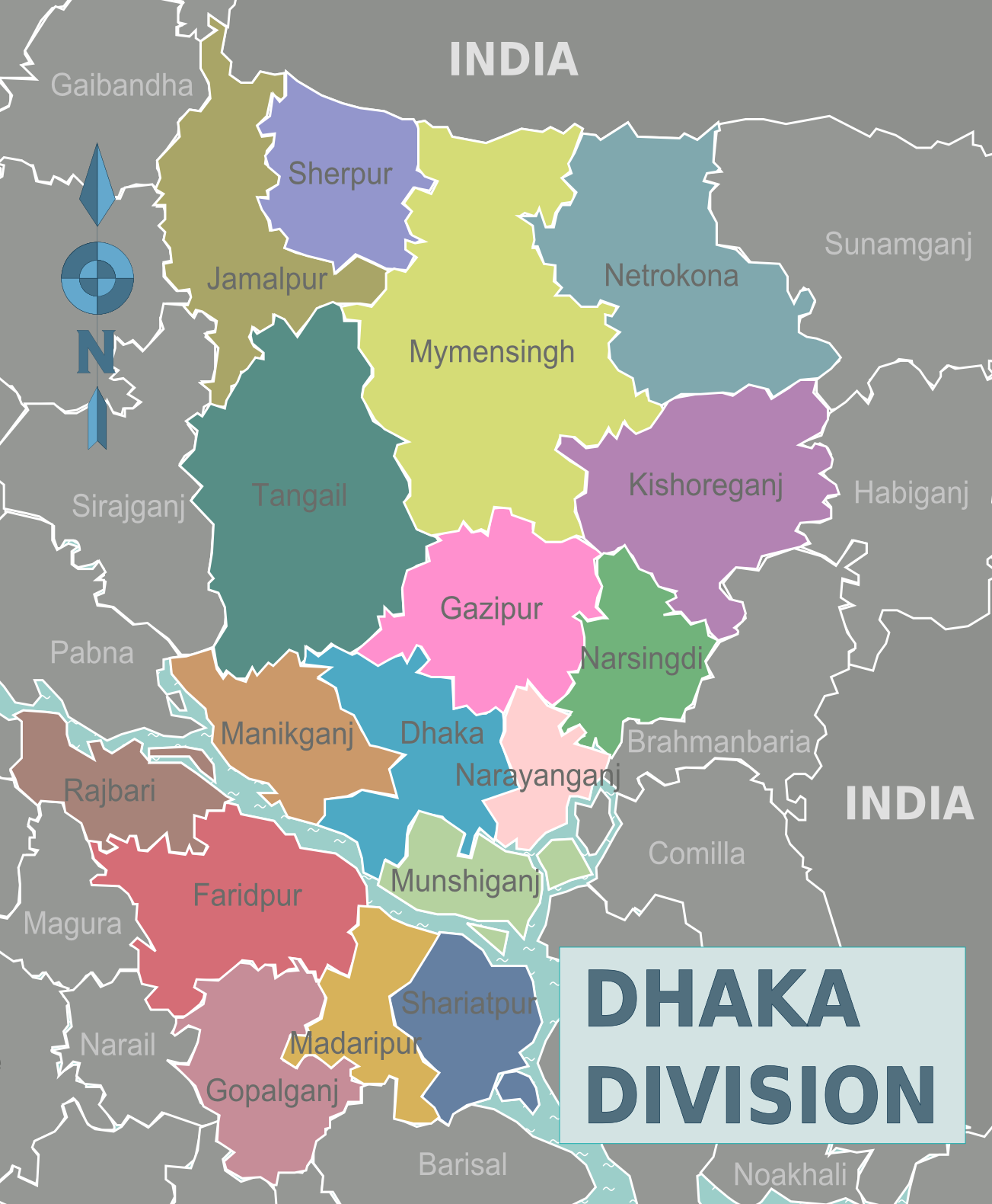 Colour-coded map of the districts of Dhaka Division in Bangladesh (Wikivoyage regional scheme), English version